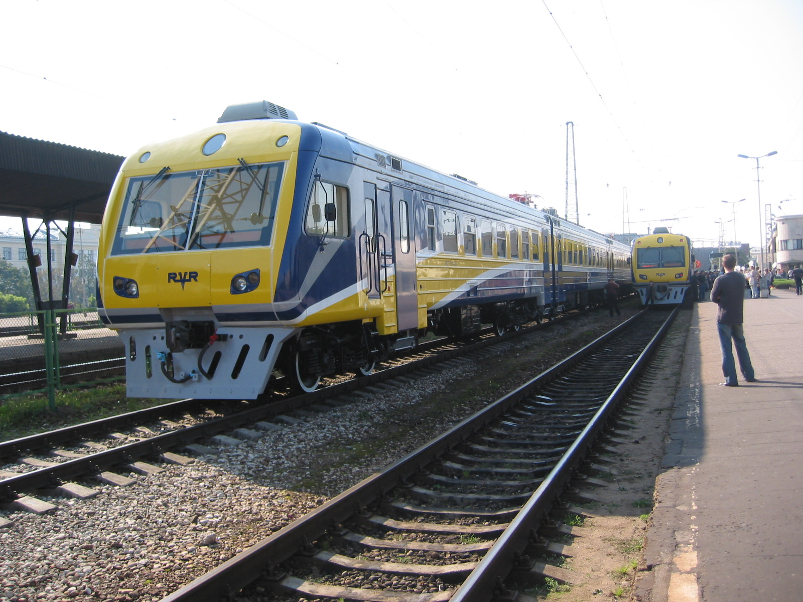 LDZ ER2T passenger train